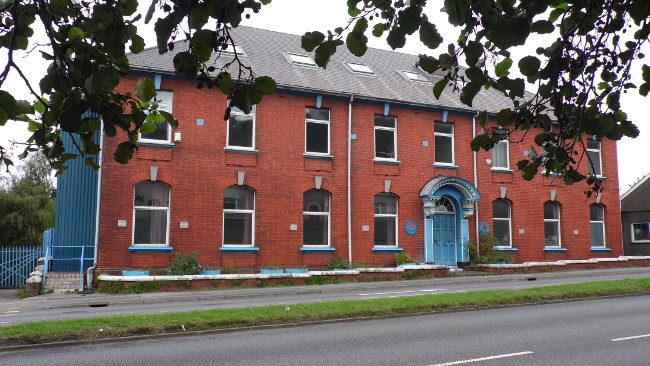 Friends of the Young Disabled buildings in Cwmbwrla, Swansea. Formely the head offices of the Cwmfelyn Steelworks.